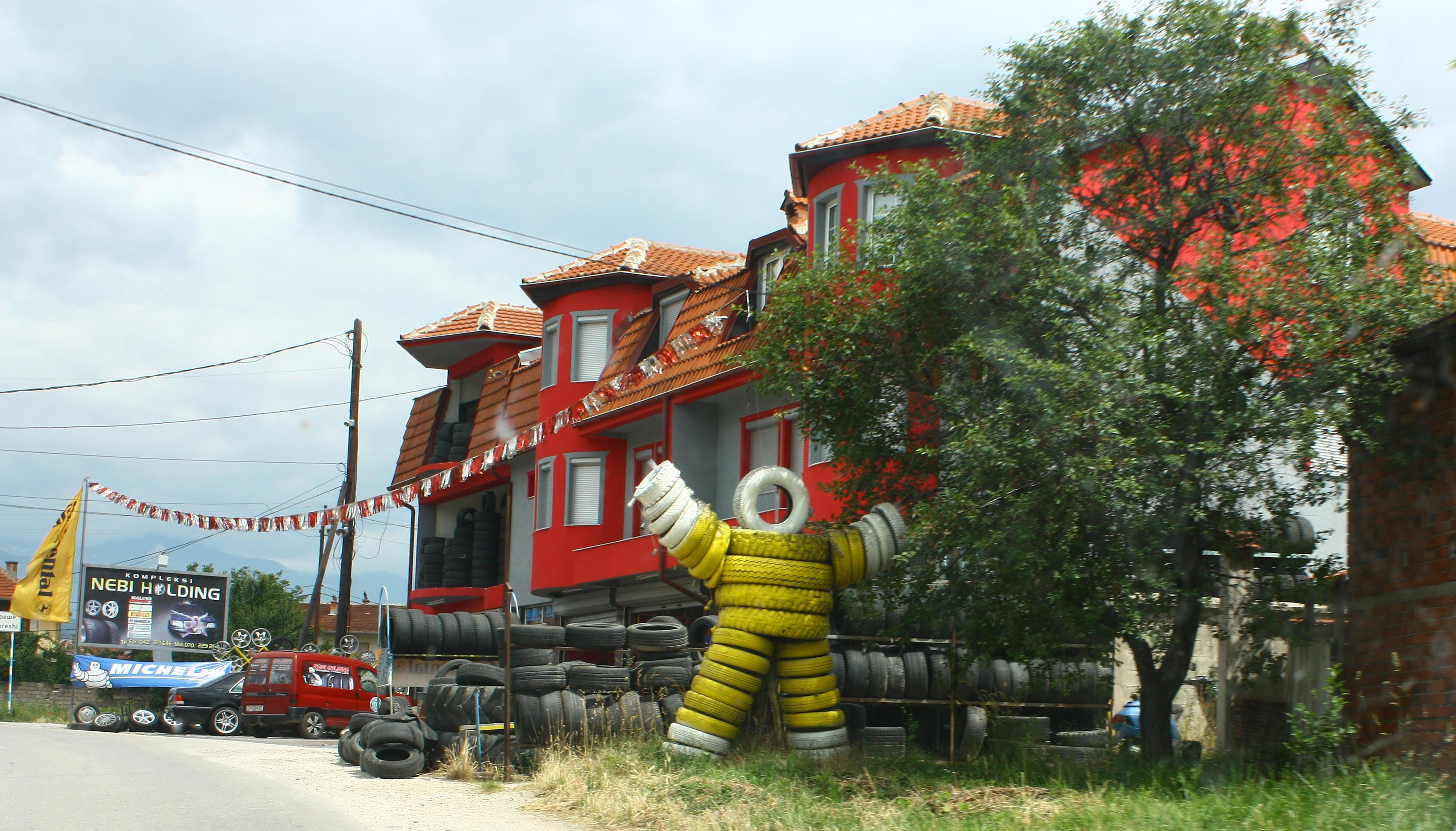 Debreše, Macedonia